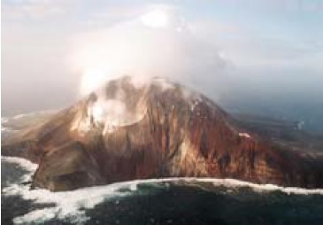 Oblique aerial photograph of Zavadovski Island, South Sandwich Islands, South Atlantic